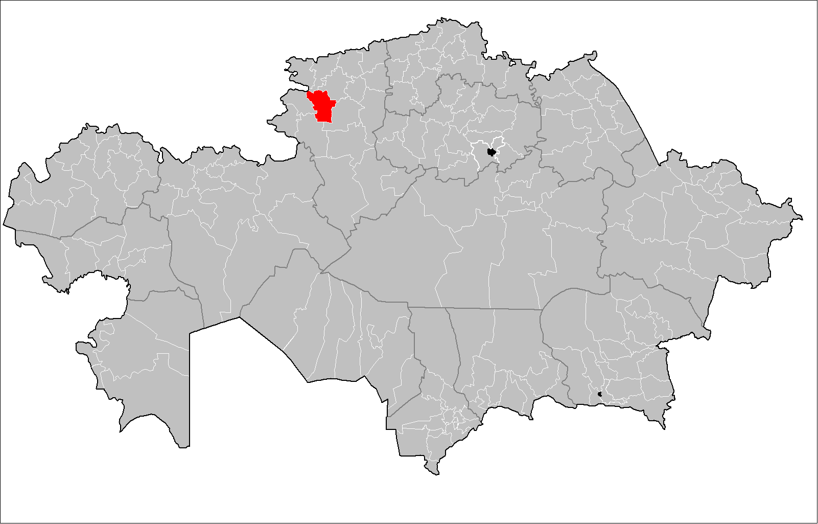 Map of the rayons of Kazakhstan. Created by Rarelibra 16:49, 3 August 2007 (UTC) for public domain use, using MapInfo Professional v8.5 and various mapping resources.